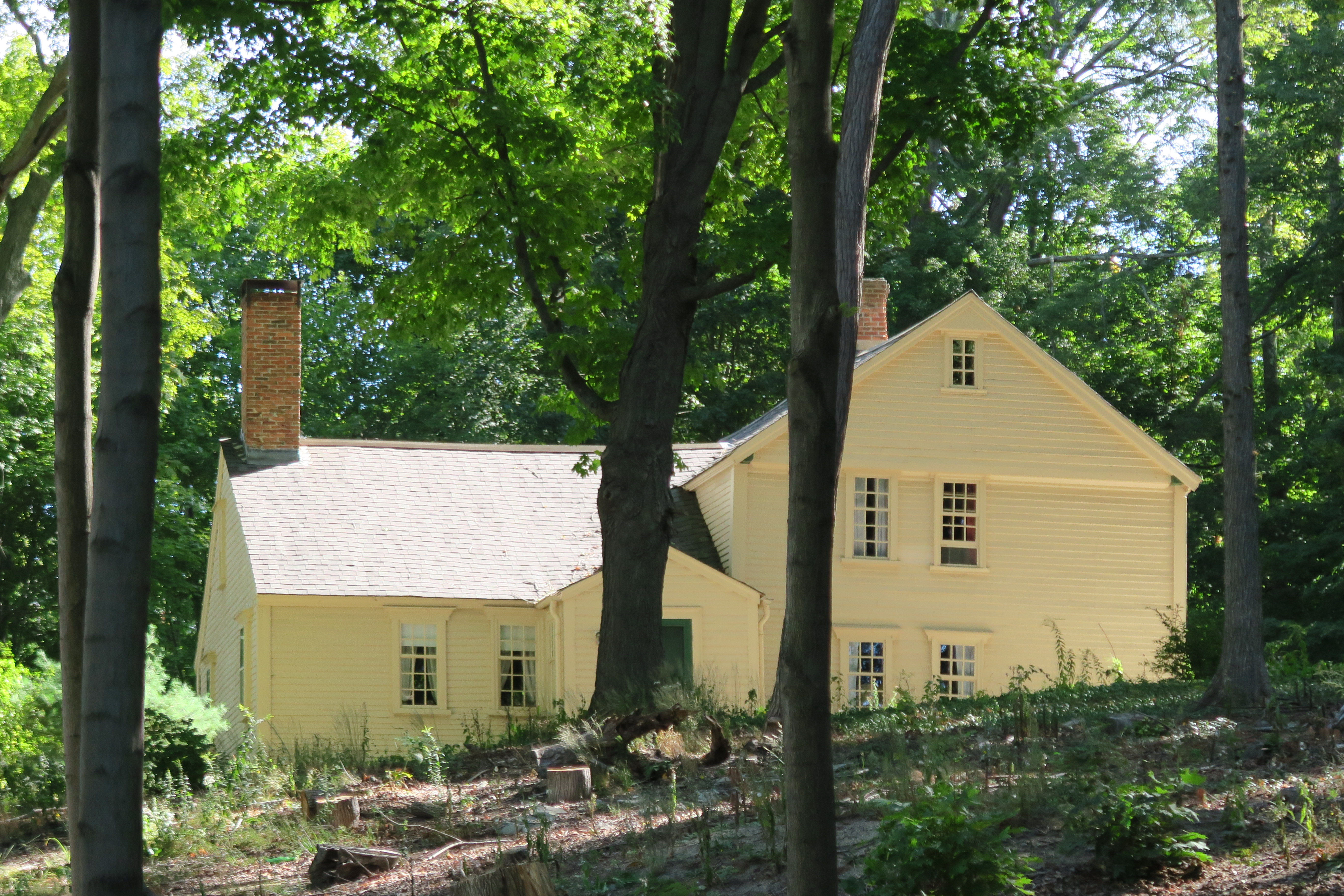 Faulkner House, front, South Acton Massachusetts